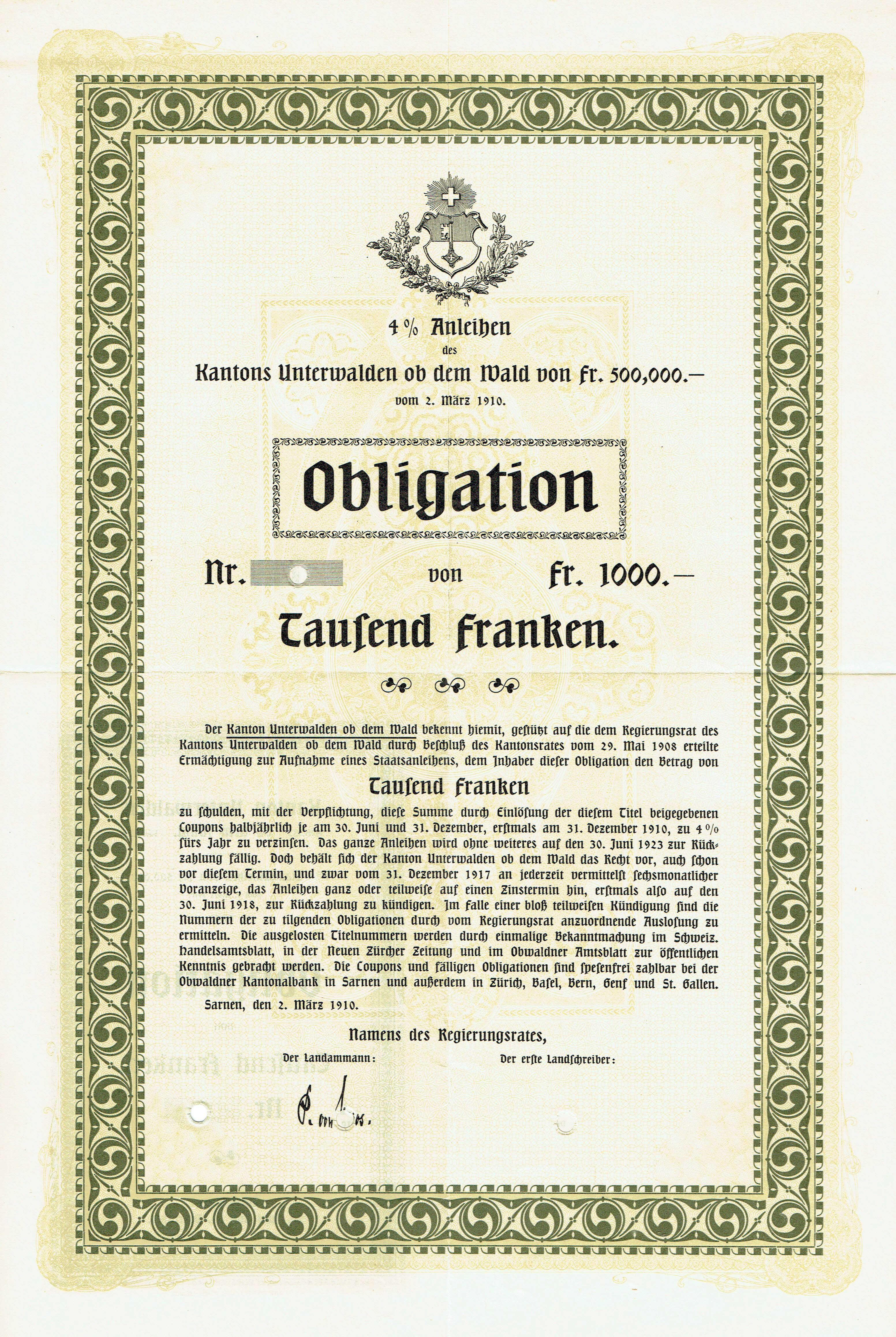 Bond of the Canton of Unterwalden ob dem Wald, issued 2. March 1910